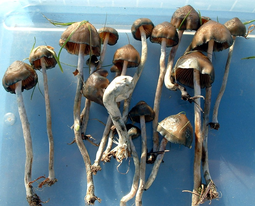 Psilocybe baeocystis